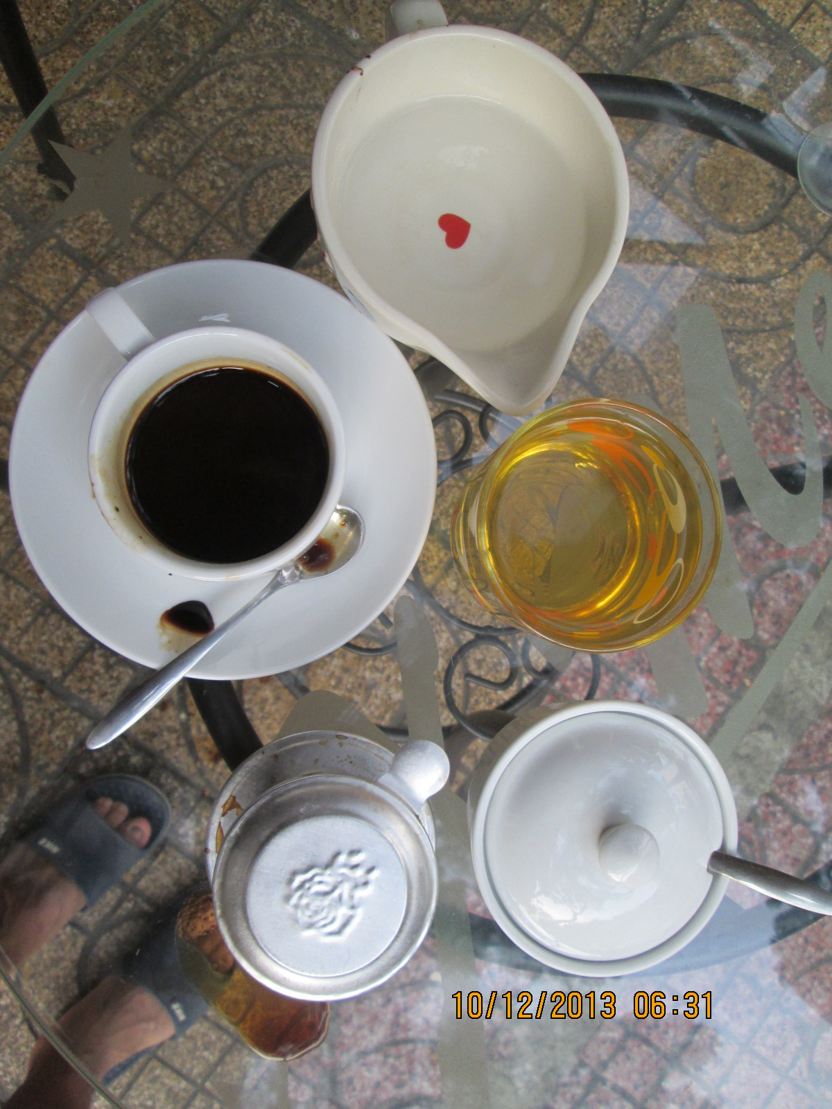 Breakfast is incomplete without the famous "Saigon Coffee".